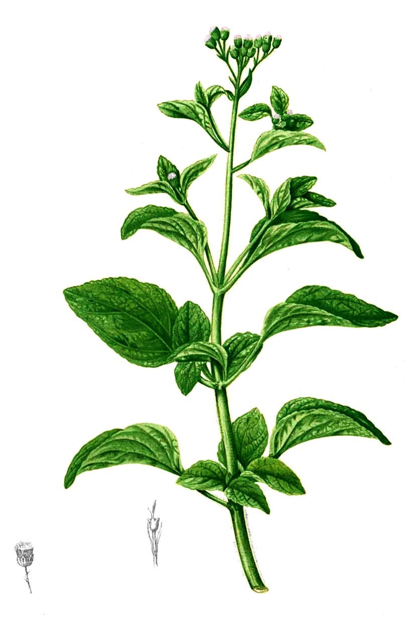 Plate from book